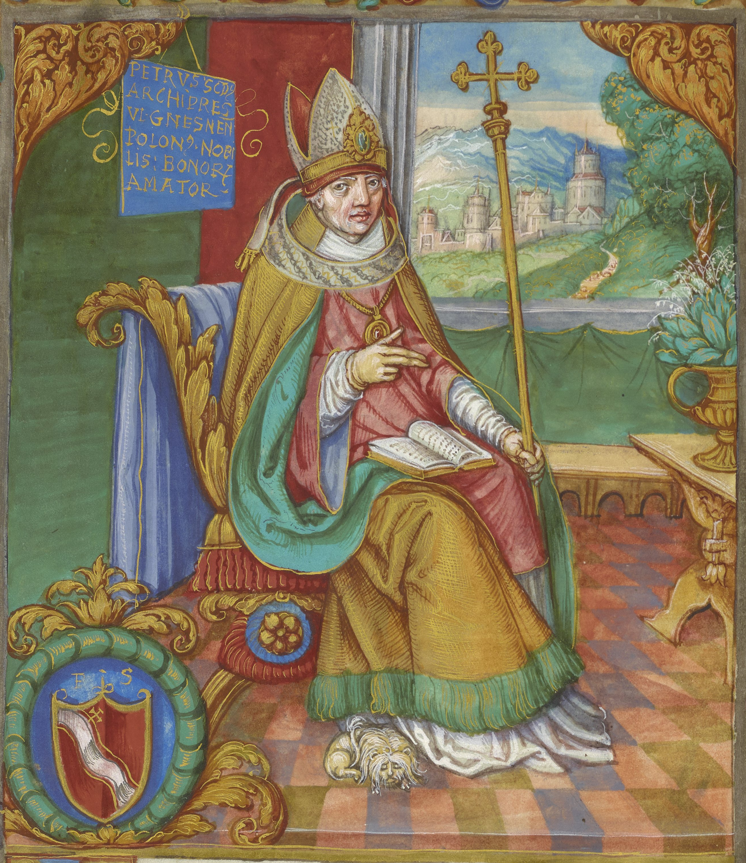 The portrait of Bogumił Piotr, the Archiboshop of Gniezno, died in 1092. Located in the codex containing Jan Długosz's Catalogus archiepiscoporum gnesnensium.